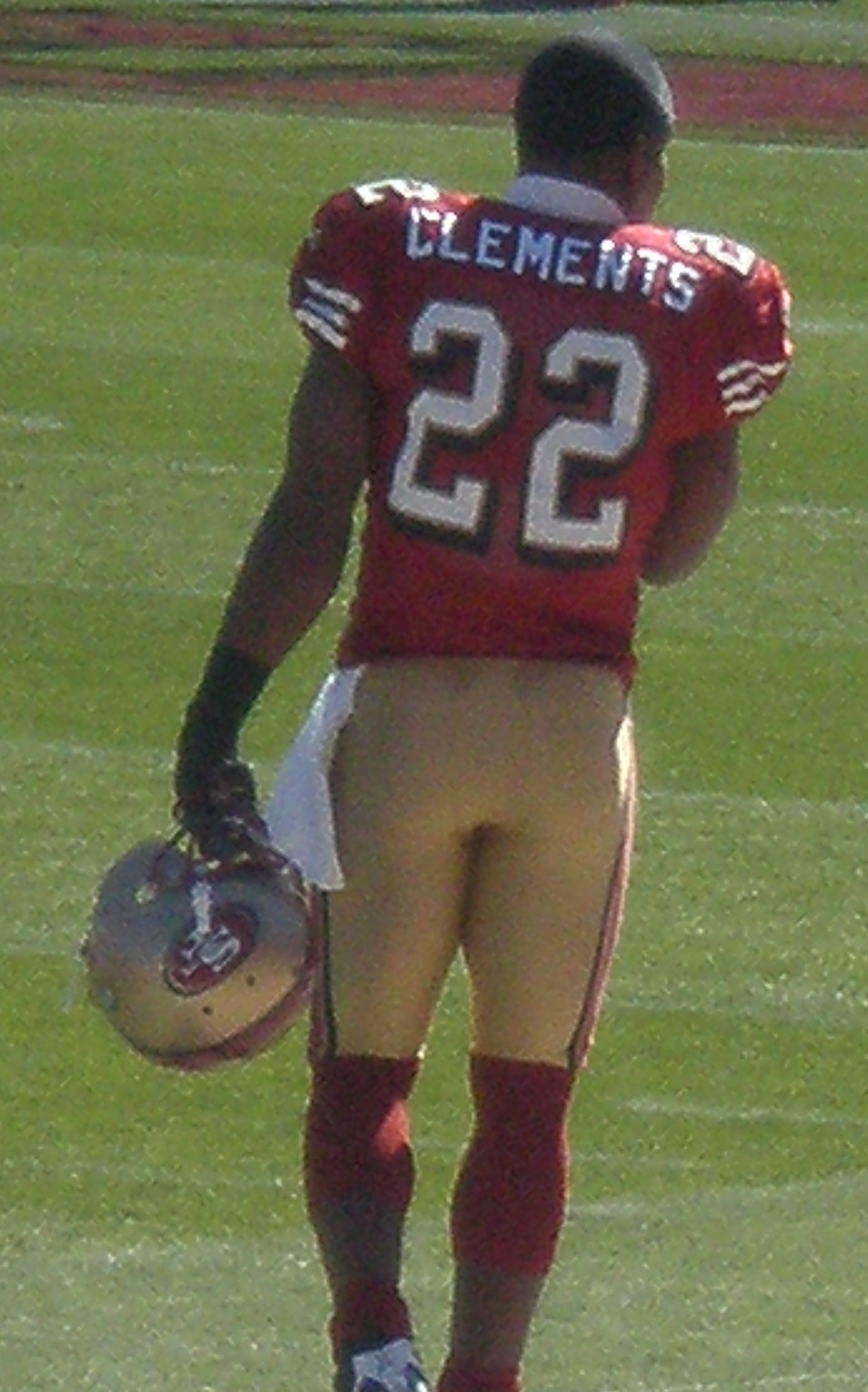 San Francisco 49ers cornerback Nate Clements on Bill Walsh Field at Candlestick Park prior to a regular season game against the Philadelphia Eagles. The Eagles won 40-26.